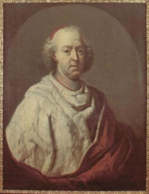 Portrait of Sigismund von Kollonitsch, Prince-Archbishop of Vienna.